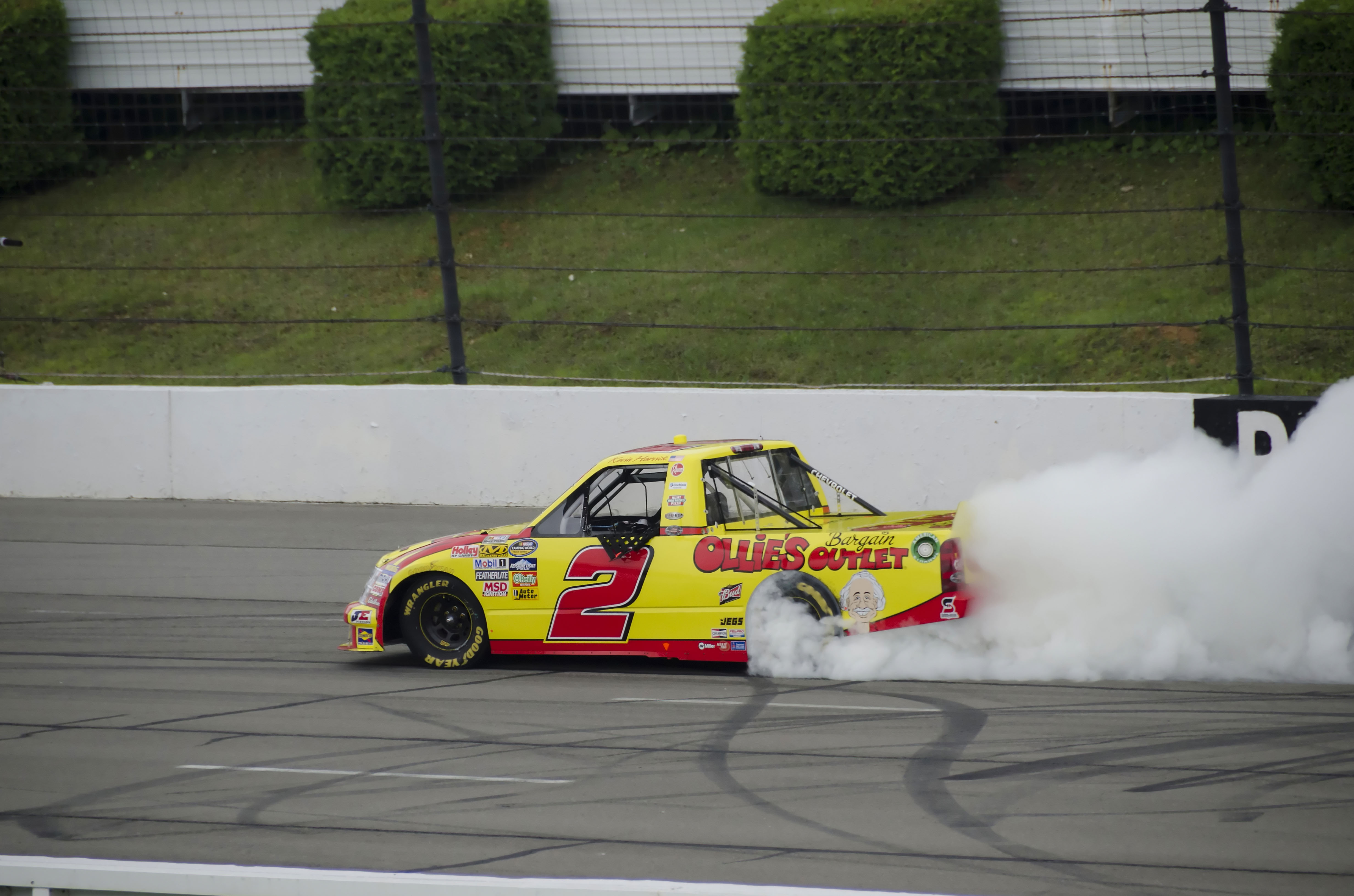 Kevin Harvick performs a burnout after winning the Good Sam RV Emergency Road Service 125 at Pocono Raceway in 2011.